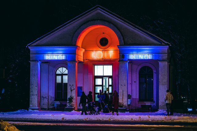 Pilt tehtud 2018. aastal pärast neoontulede paigaldamist.